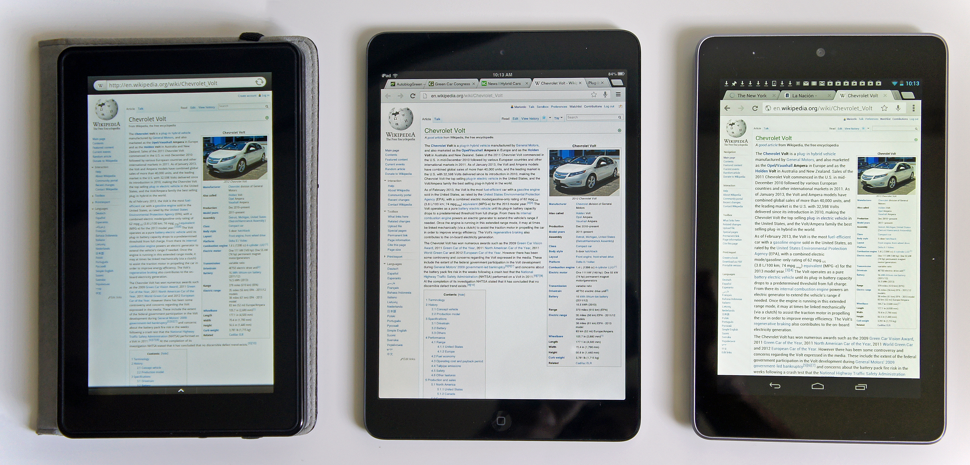 Tablet comparison: Amazon Kindle Fire (left), Apple iPad Mini (center) and Google Nexus 7 (right), all showing a page of the English Wikipedia